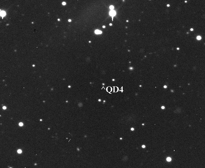 15 minute exposure of centaur 2008 QD4 with a 24" telescope. 2008 QD4 is about apparent magnitude 19.0 in this image taken at 2009-11-21 06:00 UT. 2008 QD4 is about 130 times fainter than Pluto at its brightest (magnitude 13.7).